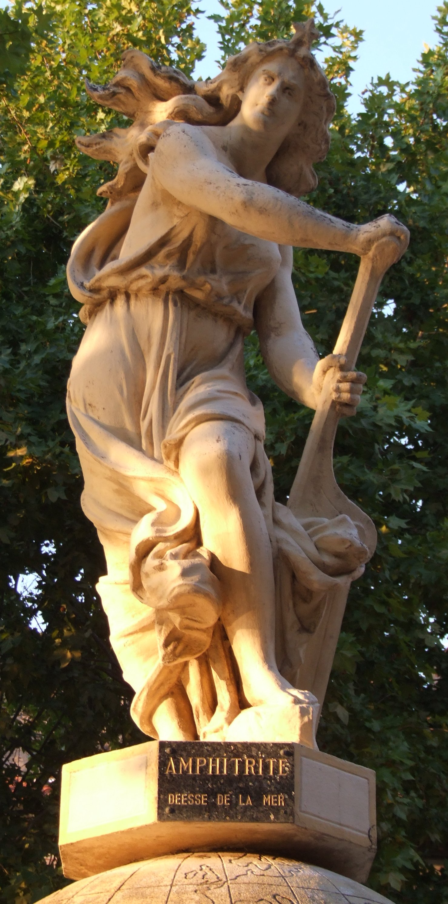 August 20, 2006, Fuji FP 9500 Amphitrite by French sculptor Léon François Chervet Agde, France